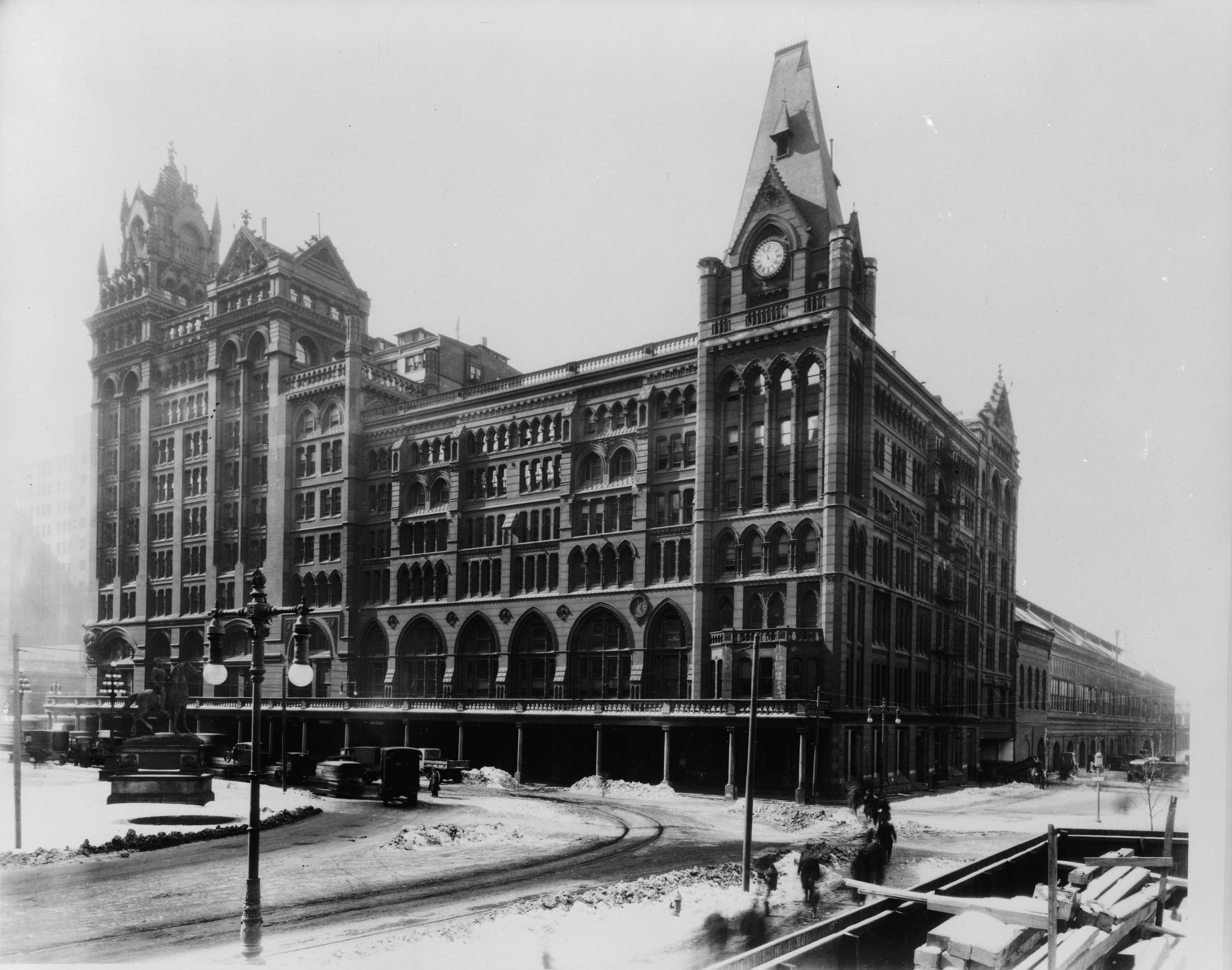 Pennsylvania Railroad, Broad Street Station, Philadelphia, from Filbert Street. Wilson Brothers & Co., architects (1881). The office building addition (left) was designed by Furness, Evans & Co., architects, and completed in 1894.